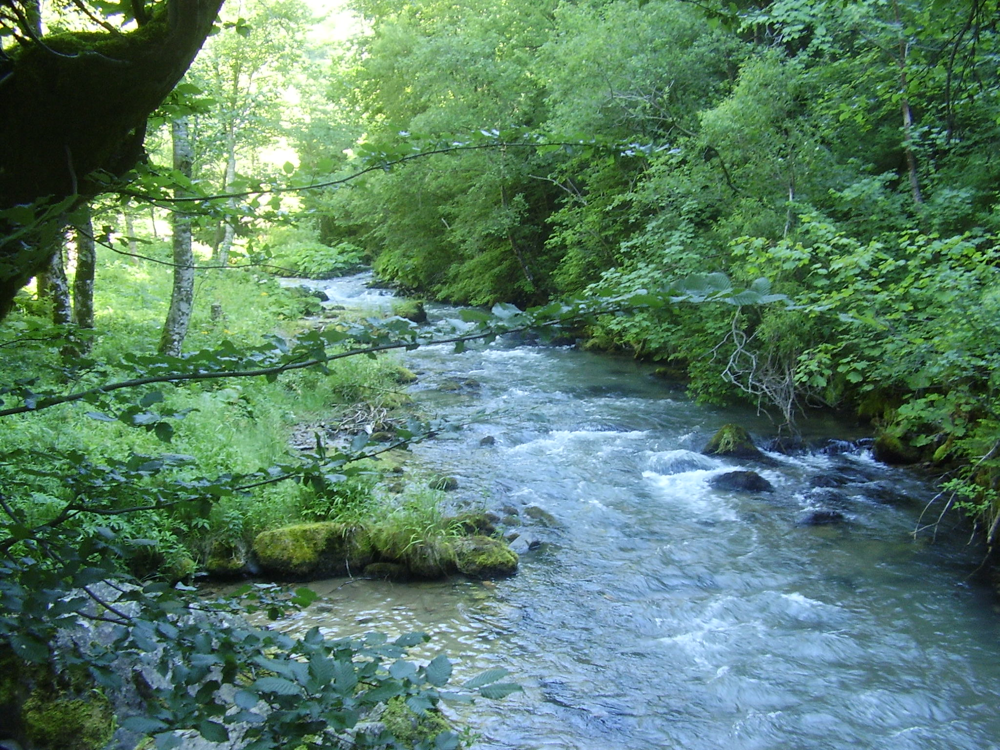 Bistrička rika River, Bosnia and Herzegovina